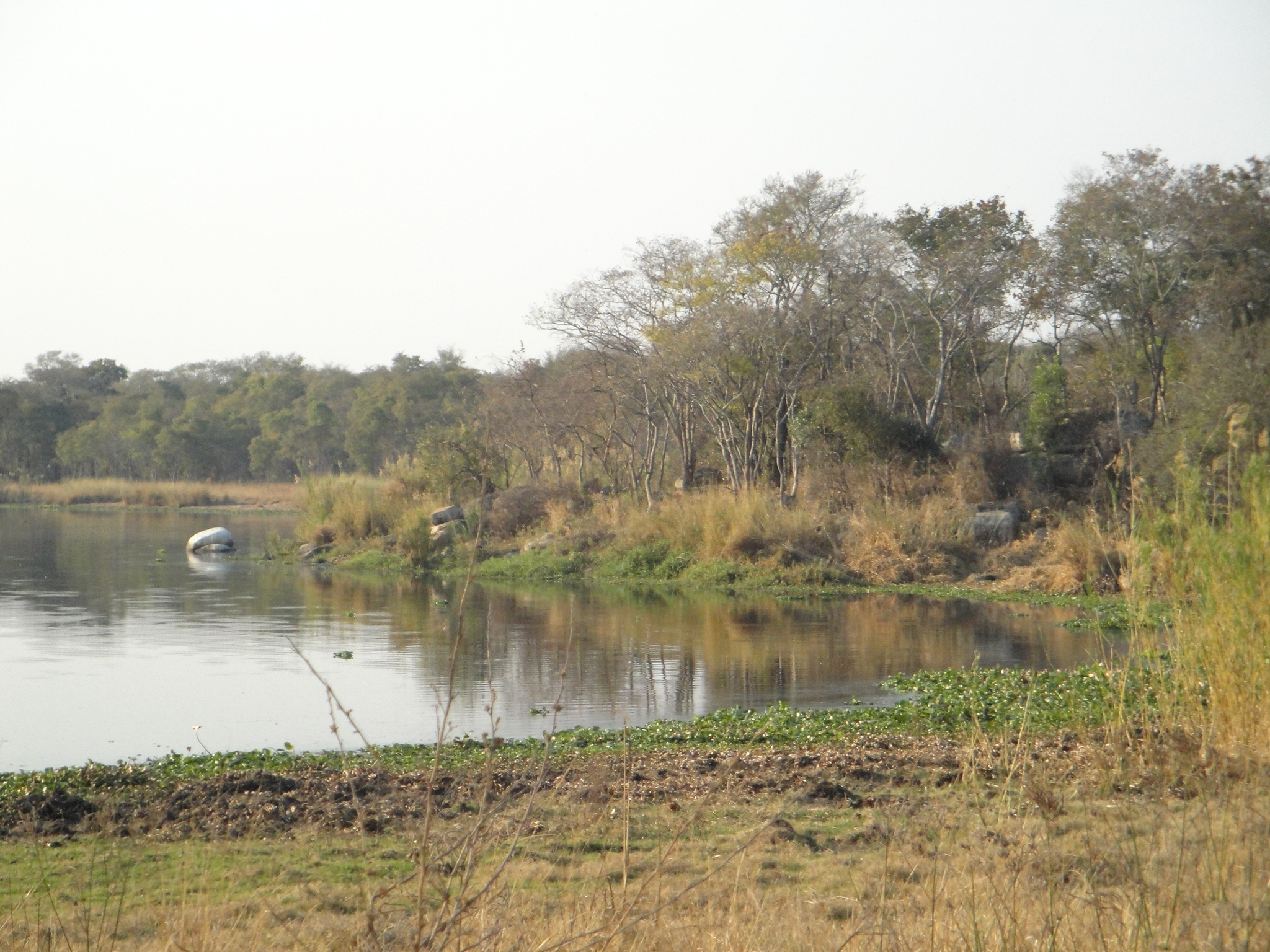 Creek in the game park, Chivero Recreational Park